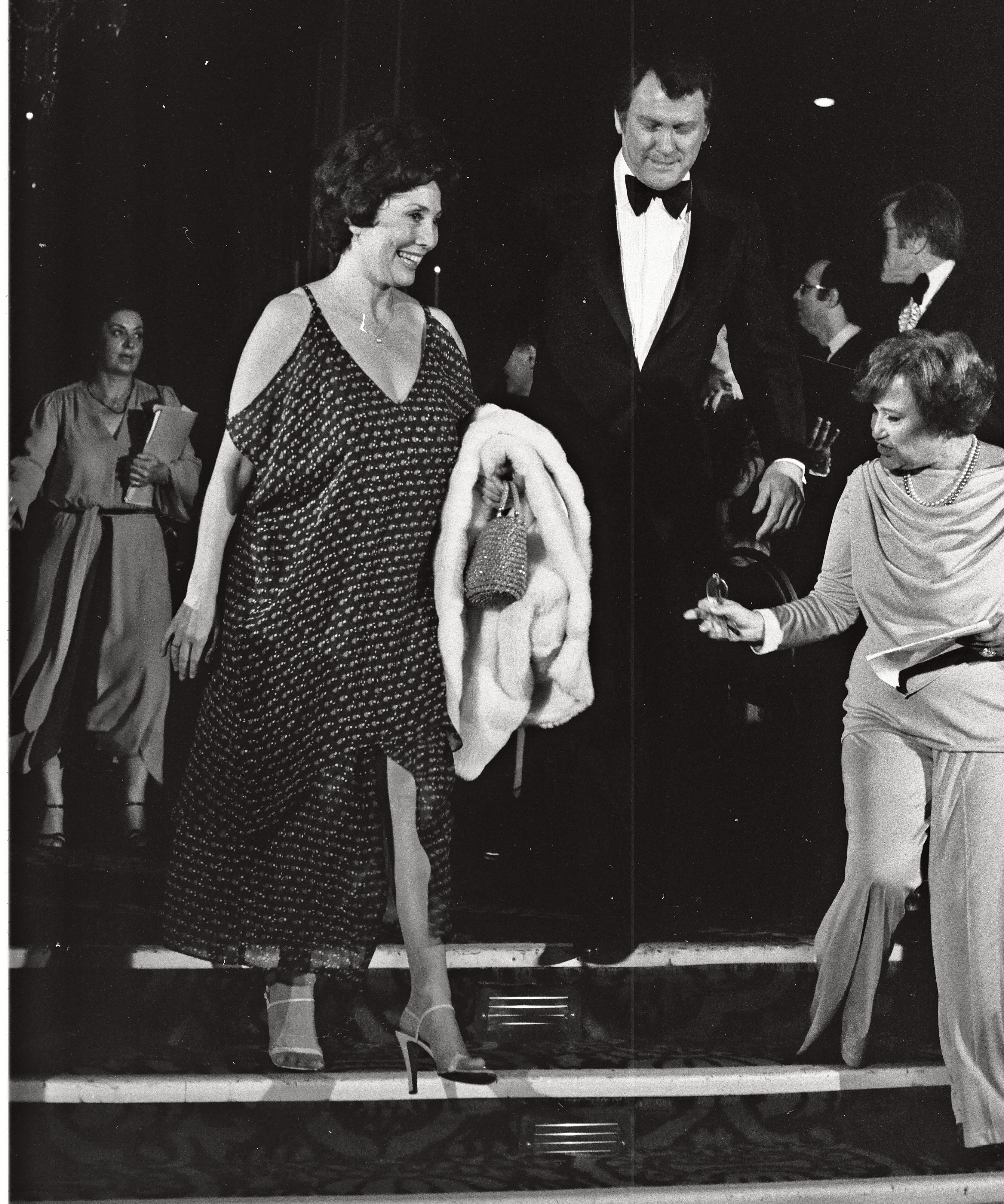 Jackie Joseph with Earl Holliman at the National Film Society convention, May 1979. NOTE: Permission granted to copy, publish, broadcast or post any of my photos, but please credit "photo by Alan Light" if you can. Thanks.